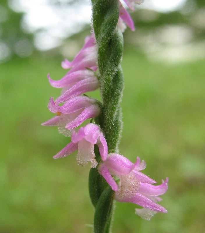 Photograph of Spiranthes sinensis, taken in Tama city, Tokyo, Japan.